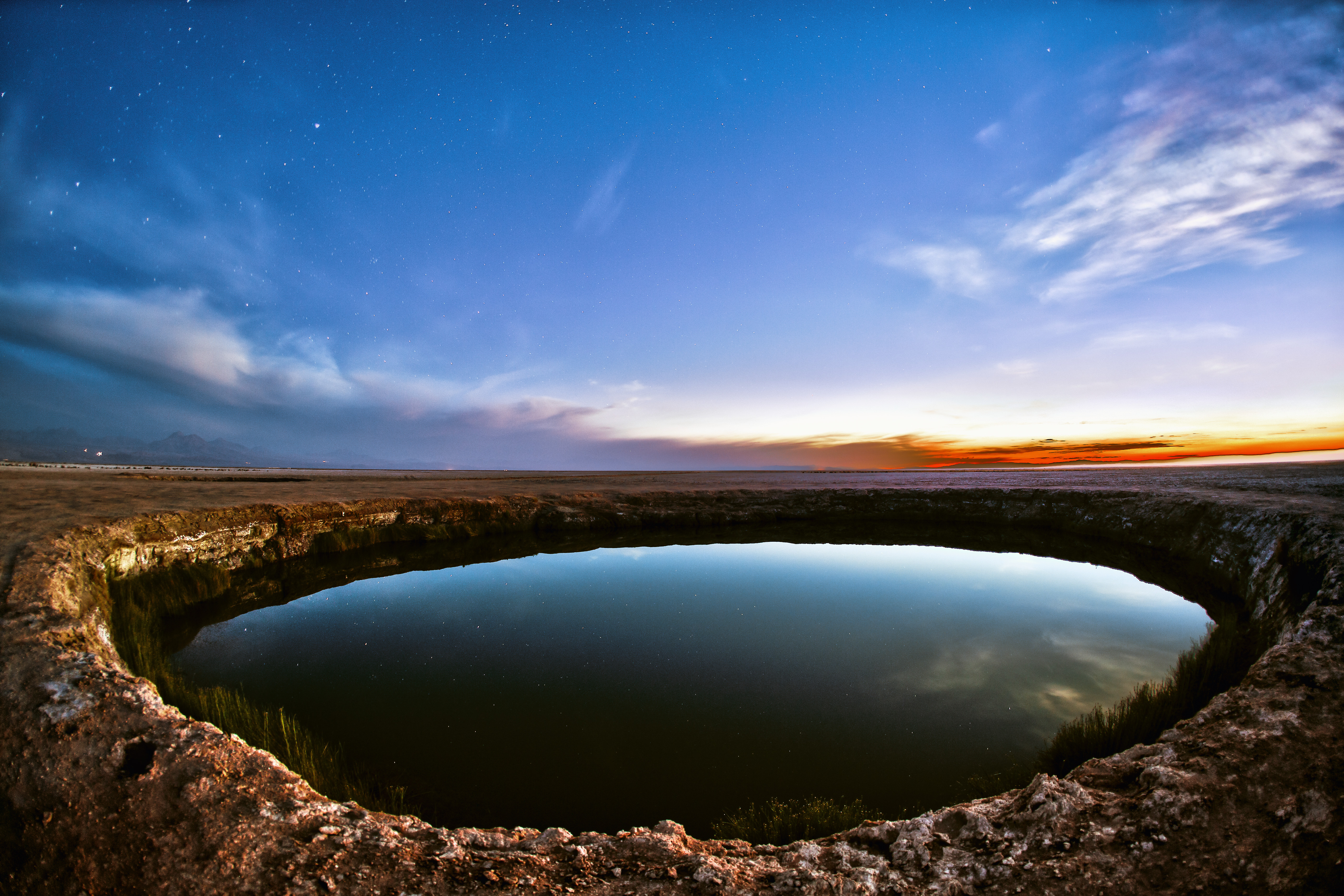 This picture was taken at the northern tip of the Salar de Atacama — the largest salt flat in Chile. The flat is close to the town of San Pedro de Atacama, a town in northern Chile very popular among Chilean tourists and international visitors. The salt flat is home to two similar freshwater lagoons that lie very close together: the Ojos de Salar, which translates to “Eyes of the Salt Pan”. During the day, the site is visited by tourists, who stop by on their excursions from San Pedro de Atacama. Here, one of the two water-filled holes in the middle of the arid landscape is shown at dusk, when the site is again peaceful and quiet. The eye of water perfectly reflects the view of the sky as it changes from day to night. While the clouds on the right horizon are still been dipped in orange by the setting Sun, the sky on the left already shows some stars. The site is not far from the Chajnantor Plateau. This high plateau, 5000 metres above sea level, hosts the Atacama Large Millimeter/Submillimeter Array (ALMA) — an observatory of revolutionary design, composed of 66 high-precision antennas. The Atacama Desert is the perfect location for ALMA, as low humidity and high altitude combine to give ideal conditions for astronomical observation. This image was taken by ESO Photo Ambassador, Adhemar Duro.